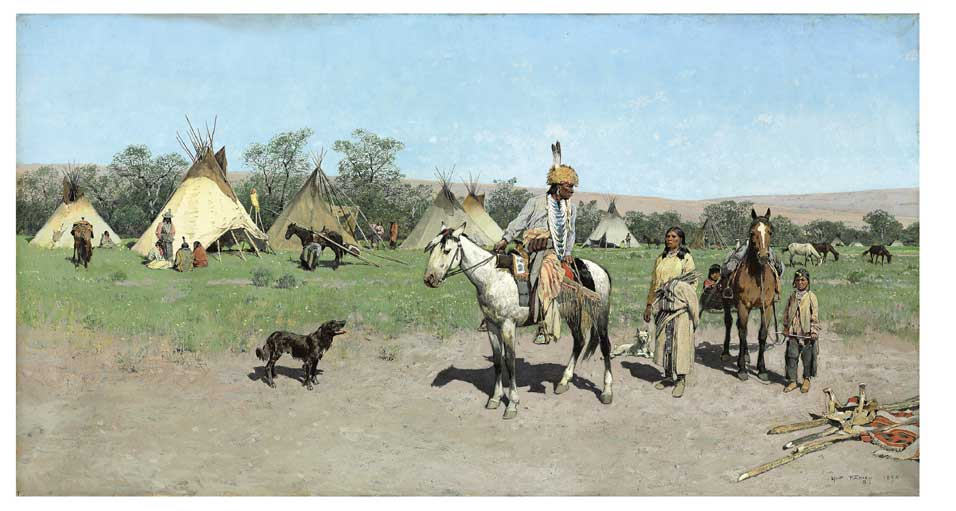 In Pastures New.